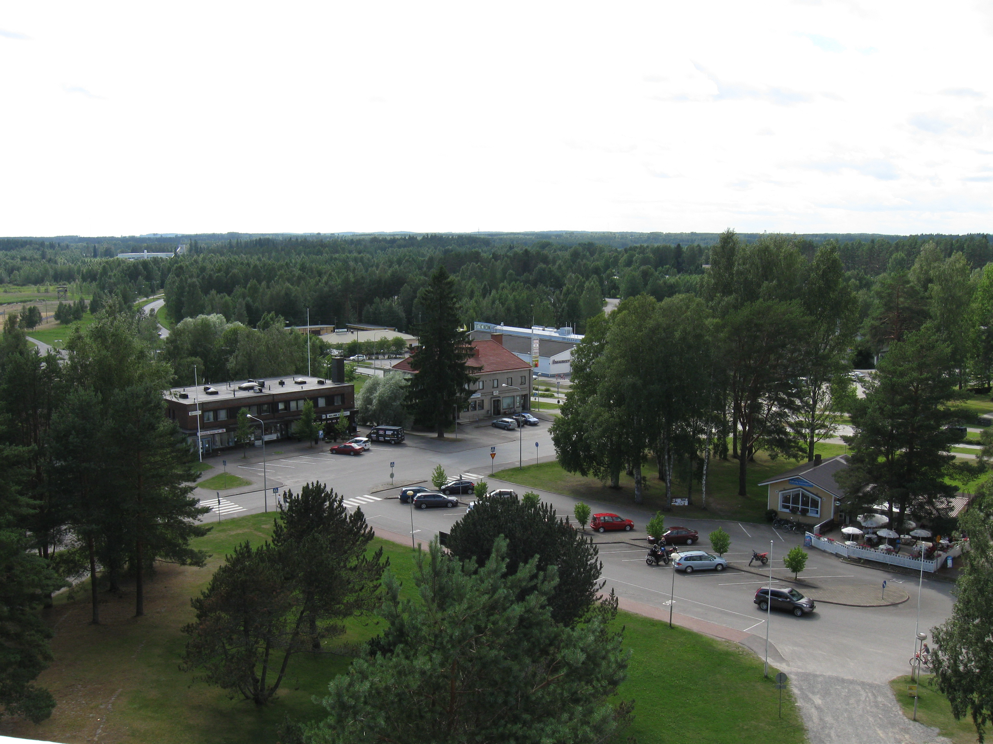 A view to the municipality of Kerimäki, Finland, from the belltower of the church.